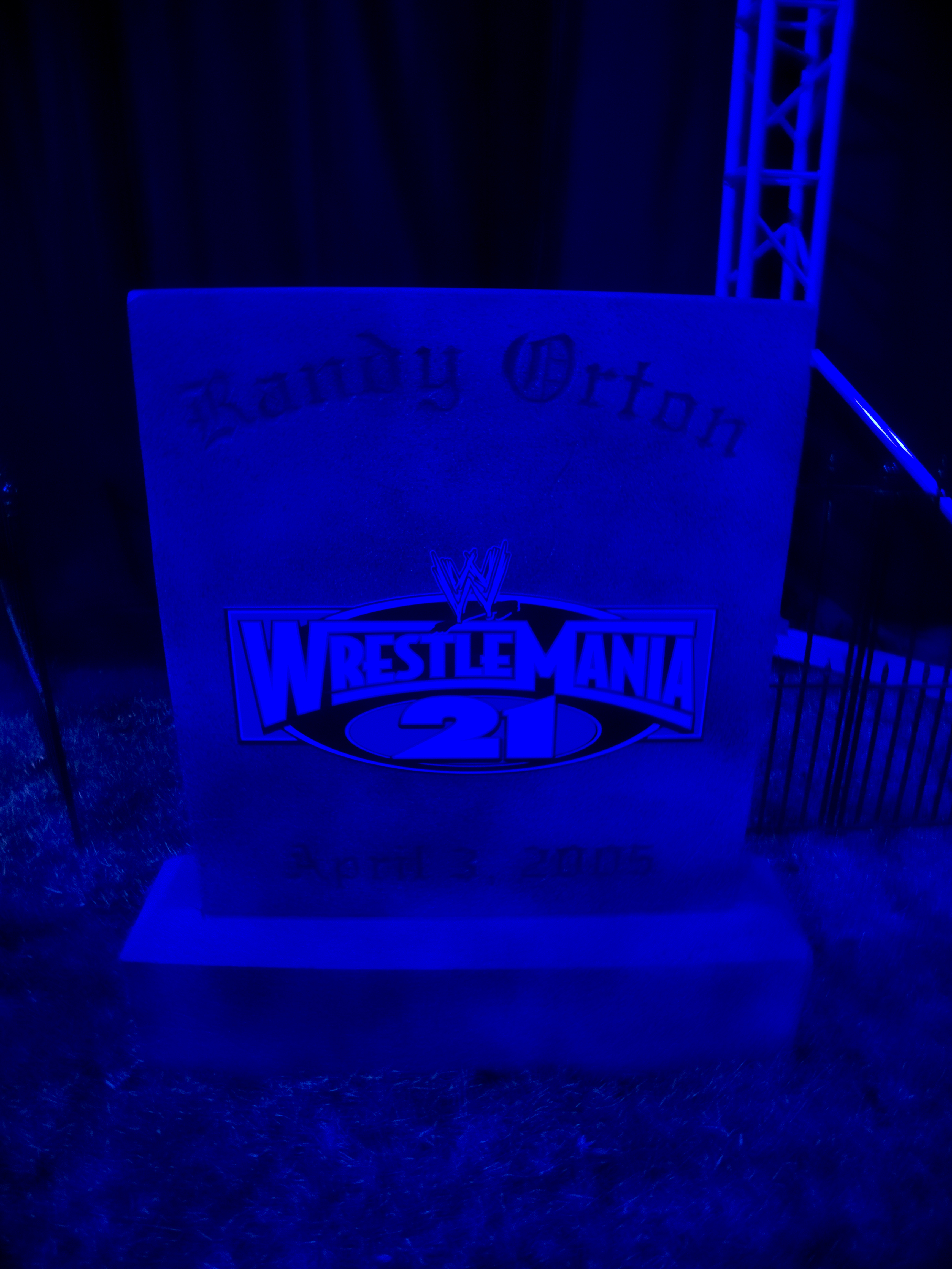 The Undertaker's Graveyard @ Axxess